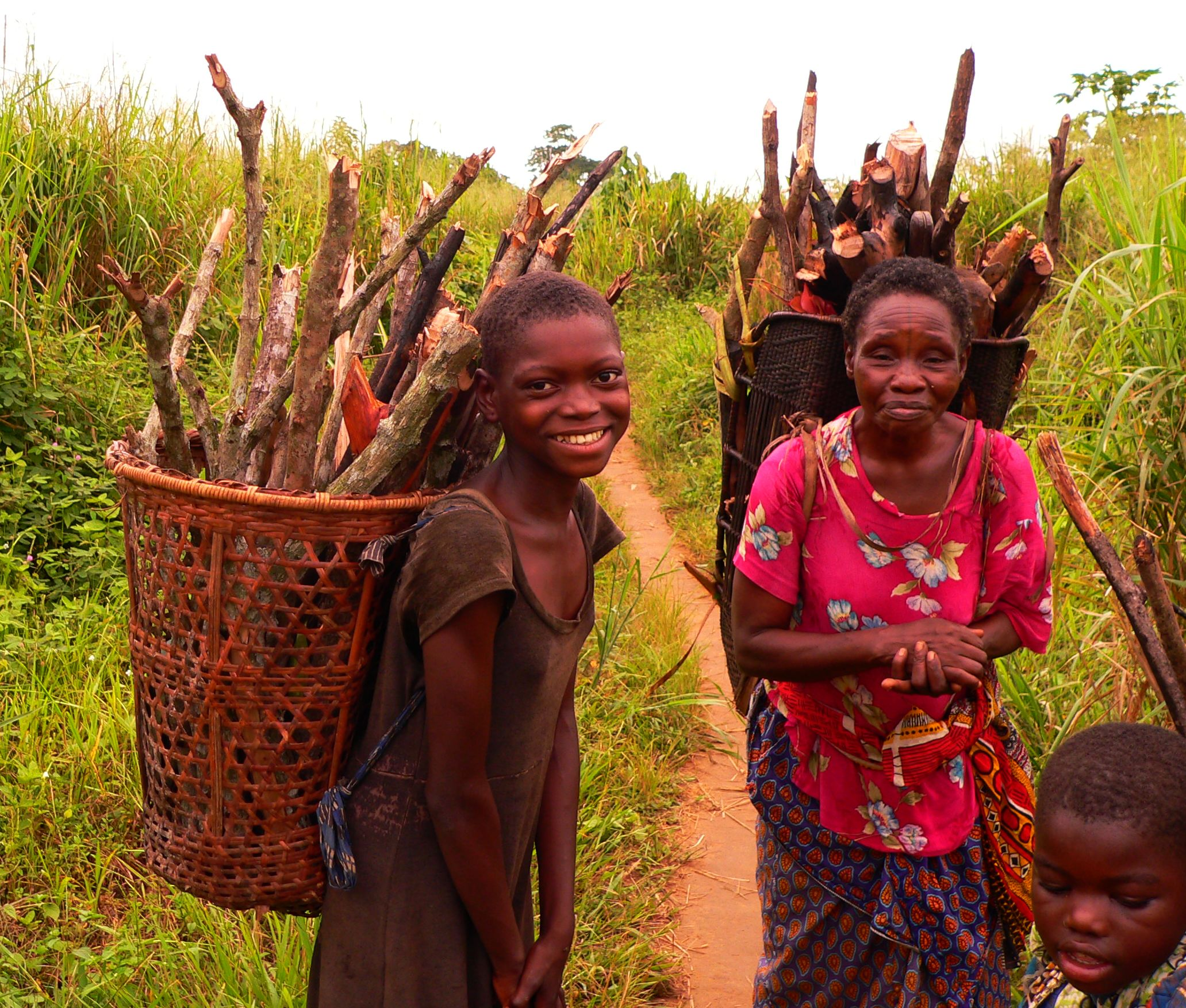 Collecting firewood in Basankusu